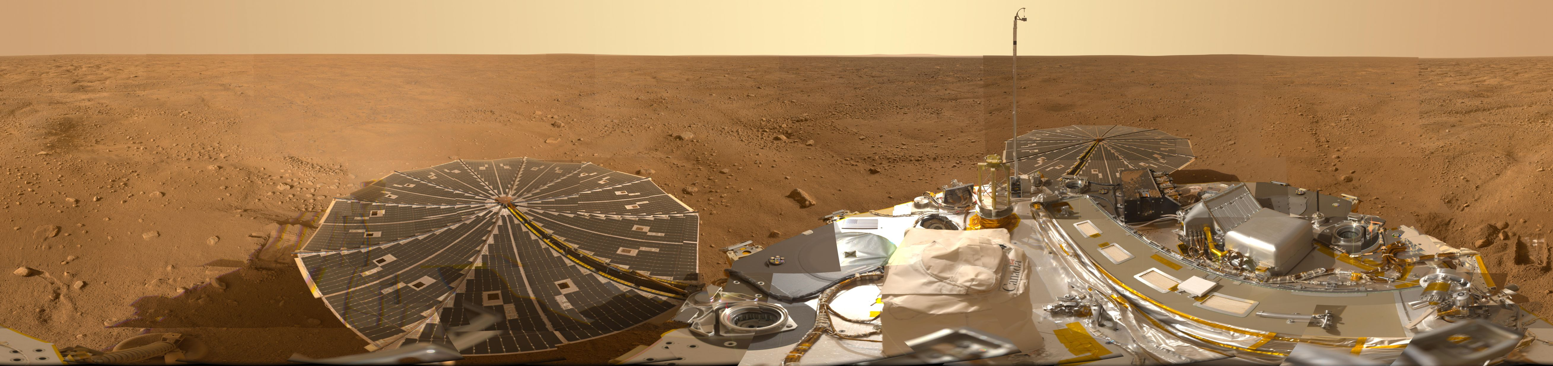 PIA13804: Mars Panorama of Phoenix Landing Site and Lander Deck Target Name: Mars Is a satellite of: Sol (our sun) Mission: Phoenix Spacecraft: Phoenix Lander Instrument: Surface Stereo Imager (SSI) Product Size: 26180 x 6180 pixels (width x height) Produced By: University of Arizona Full-Res TIFF: PIA13804.tif (485.4 MB) Full-Res JPEG: PIA13804.jpg (14.63 MB) This view combines hundreds of images taken during the first several weeks after NASA's Phoenix Mars Lander arrived on an arctic plain at 68.22 degrees north latitude, 234.25 degrees east longitude on Mars. The landing was on May 25, 2008. The full-circle panorama in approximately true color shows the polygonal patterning of ground at the landing area, similar to patterns in permafrost areas on Earth. The center of the image is the westward part of the scene. Trenches where Phoenix's robotic arm has been exposing subsurface material are visible in the right half of the image. The spacecraft's meteorology mast, topped by the telltale wind gauge, extends into the sky portion of the panorama. Other Phoenix instruments, the lander's deck, and its two solar arrays are also visible. The robotic arm is not in the scene. This view comprises more than 100 different camera pointings, with images taken through three different filters at each pointing. It is presented here as a cylindrical projection. The Phoenix Mars Lander mission was led by the University of Arizona, Tucson, on behalf of NASA. Project management of the mission was by NASA's Jet Propulsion Laboratory, Pasadena, Calif. Spacecraft development was by Lockheed Martin Space Systems, Denver.